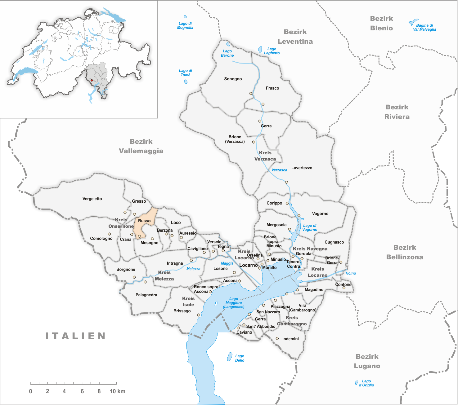 Municipality Russo